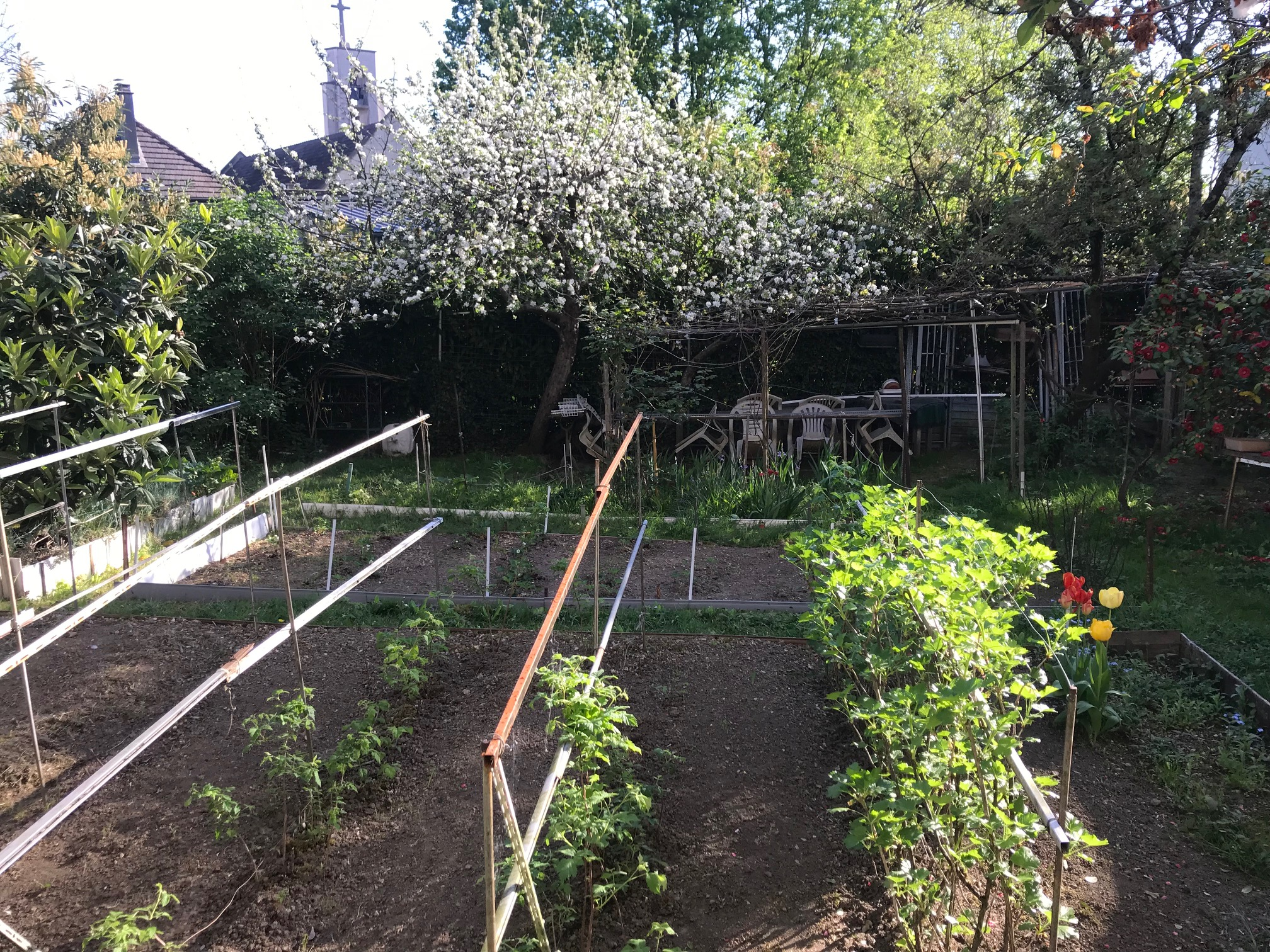 Jardins ouvriers cultivés le long de l'allée de la Châtaigneraie, dans la Cité-jardin de la Butte rouge. Ici les habitants on choisi de faire des potagers. Derrière, on voit l'église et un pavillon, on est en limite ce la cité.